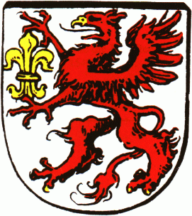 The Coat of Arms of the town Gryfice (Greifenberg)